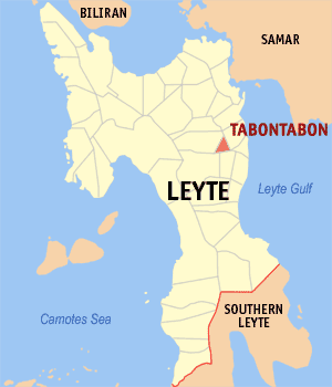 Map of Leyte showing the location of Tabontabon